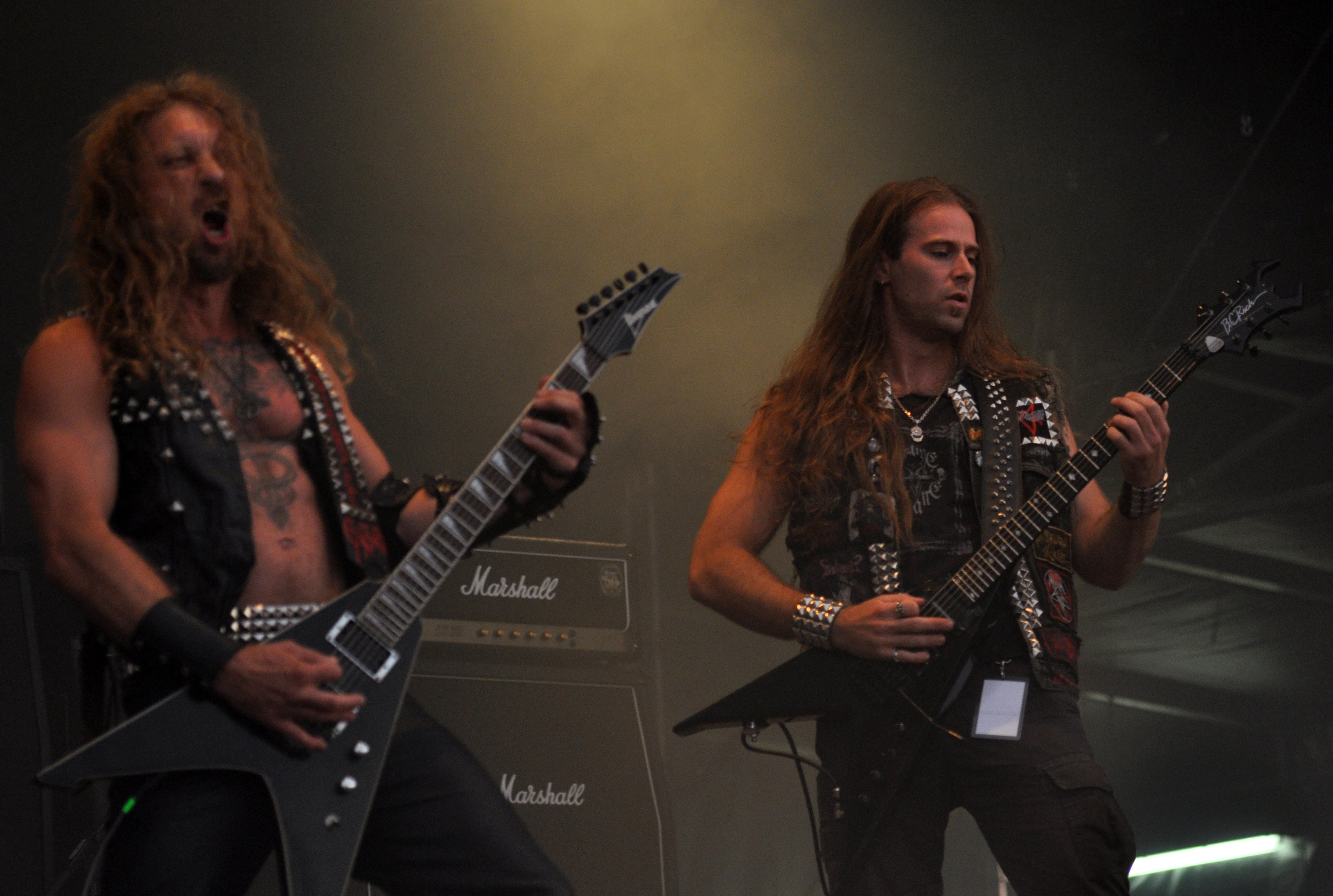 Deströyer 666 at Party.San Metal Open Air 2013